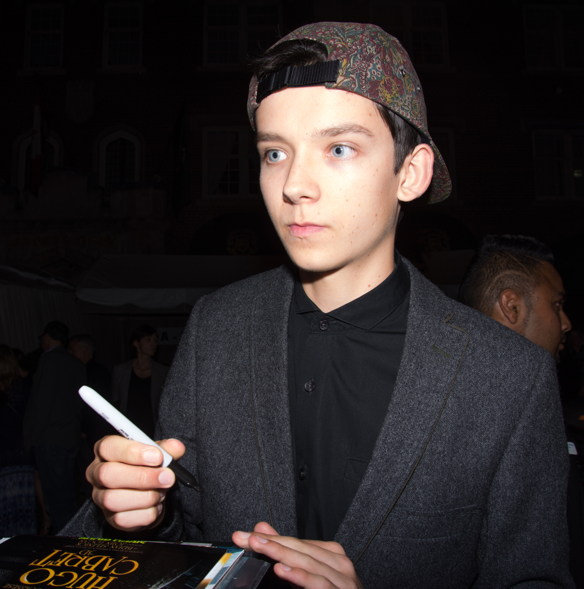 Actor Asa Butterfield arriving for the Hollywood Foreign Press Association & InStyle's 2014 TIFF Celebration